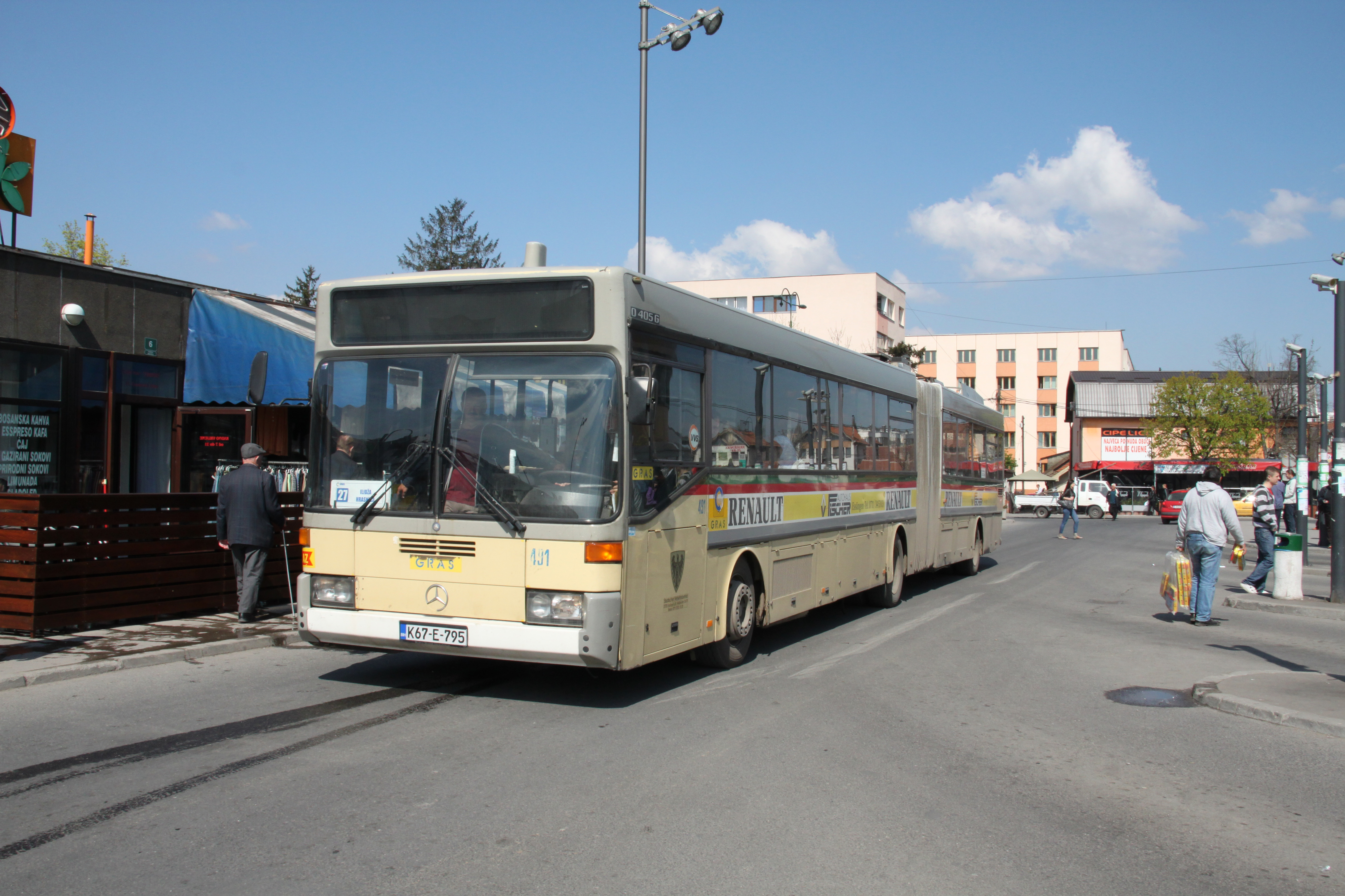 A Mercedes-Benz O405 GTD, a former Esslingen both trolley and diesel bus, now running in Sarajevo.